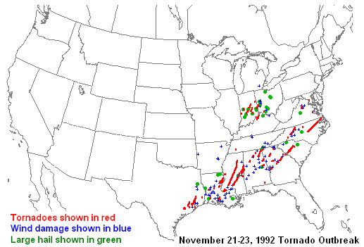 Map showing all the wind, hail, and tornado reports during the November 1992 tornado outbreak.